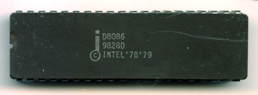 IC photo